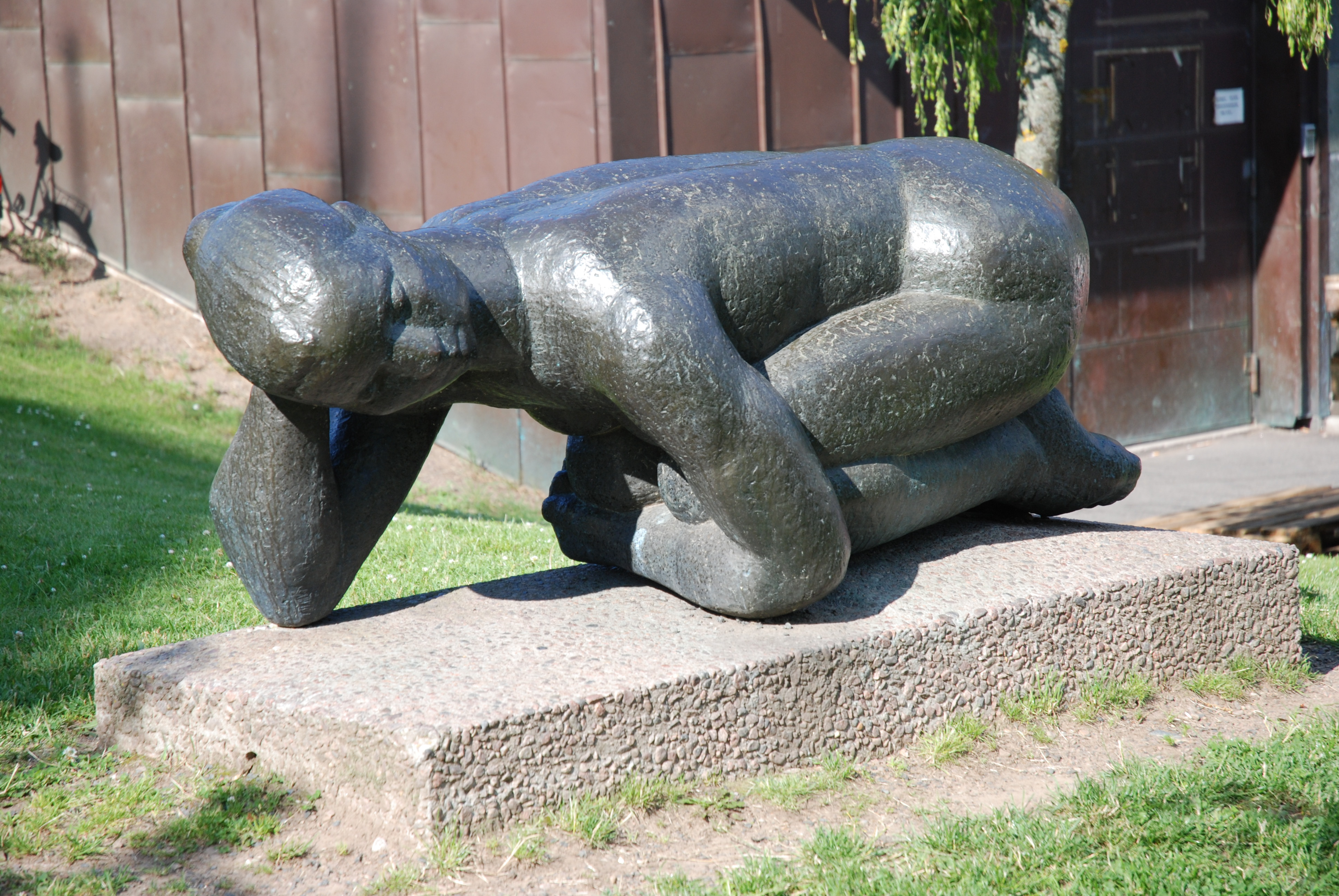 Swedish sculptor Liss Eriksson´s Élaine 1 outside Skövde Kulturhus in Sweden